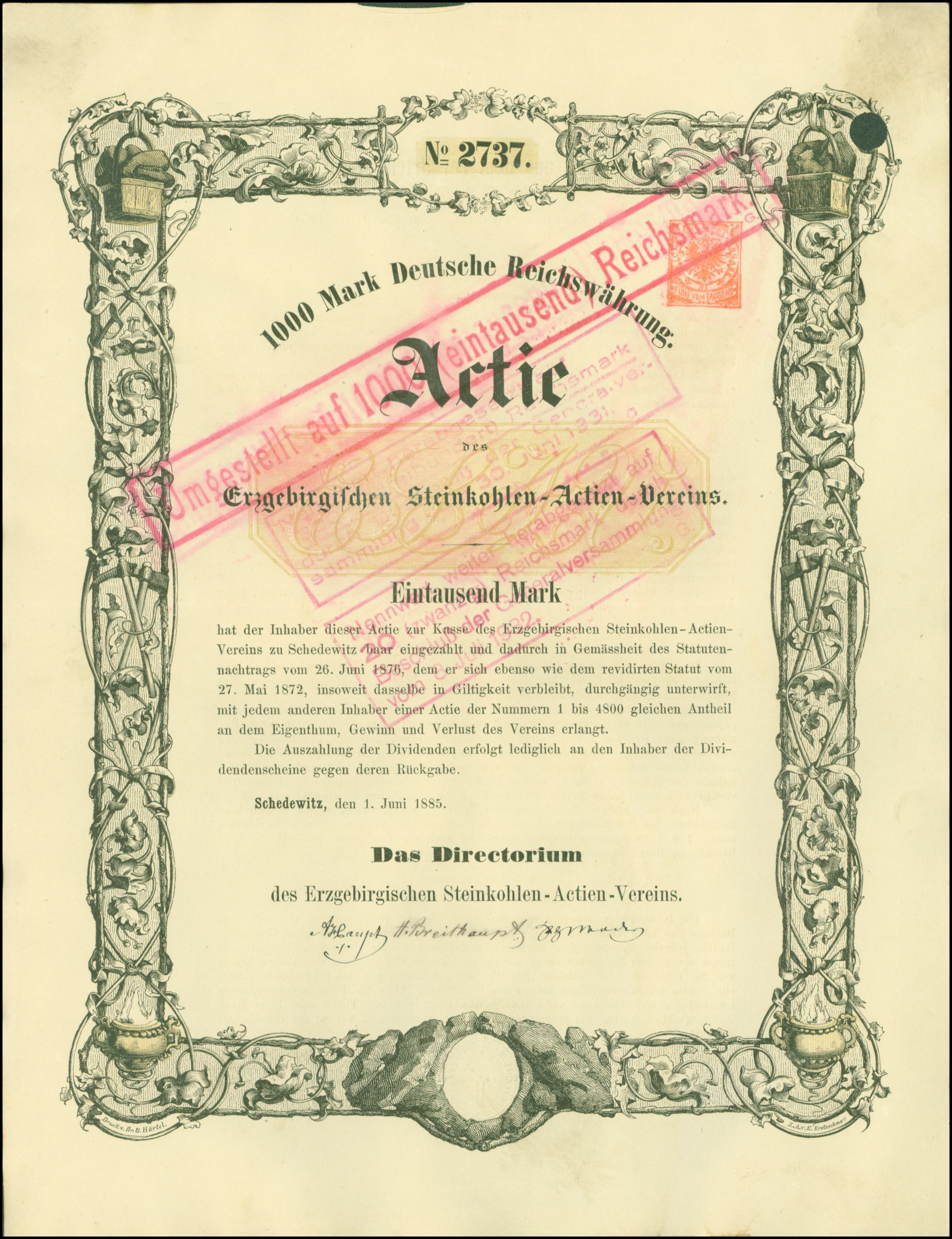 Share of the Erzgebirgischer Steinkohlen-Actien-Verein, issued 1. June 1885